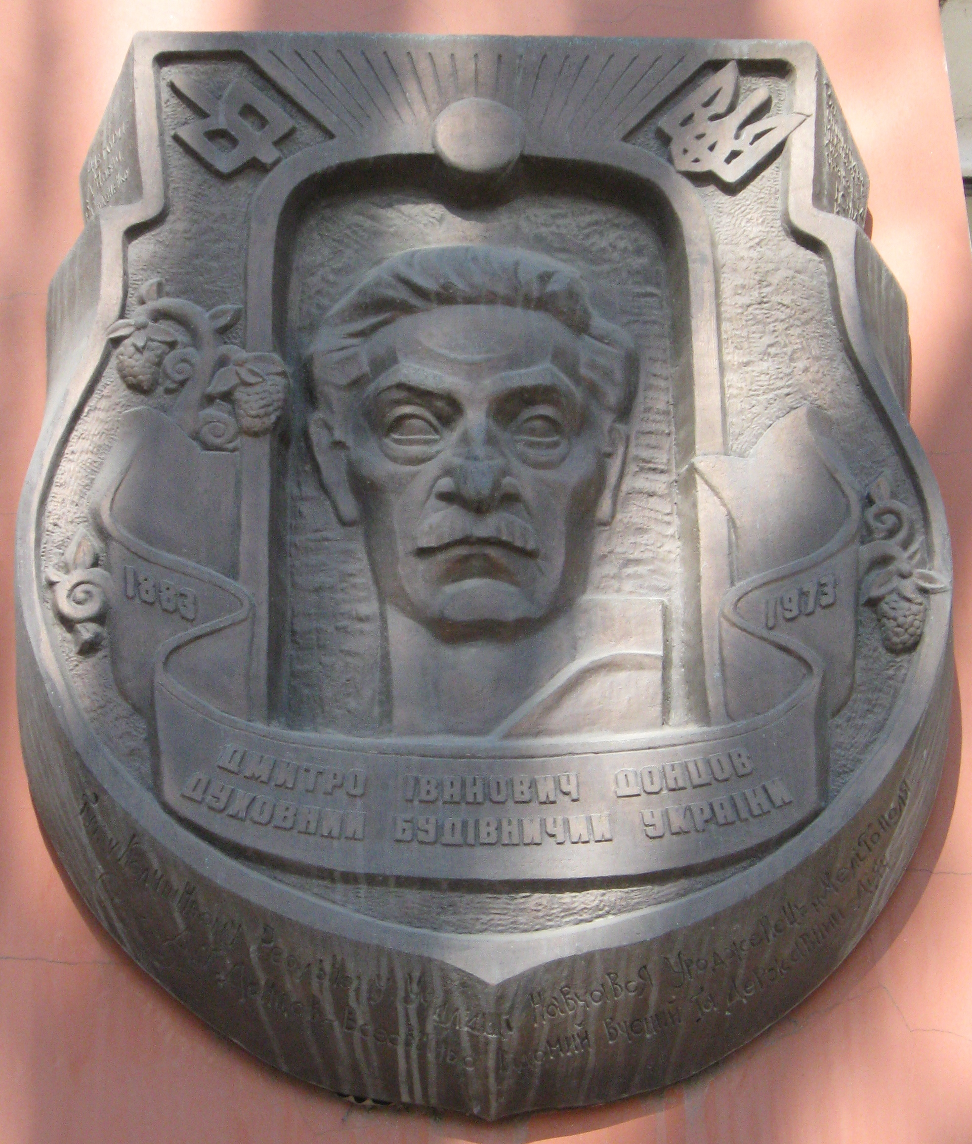 Commemorative plaque in Melitipol, in memory of Dmytro Ivanovych Dontsov, Ukrainian politician and writer.